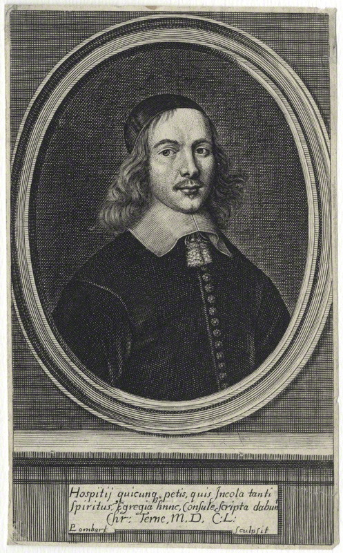 Portrait of Christopher Bennet (1617–1655), English physician.